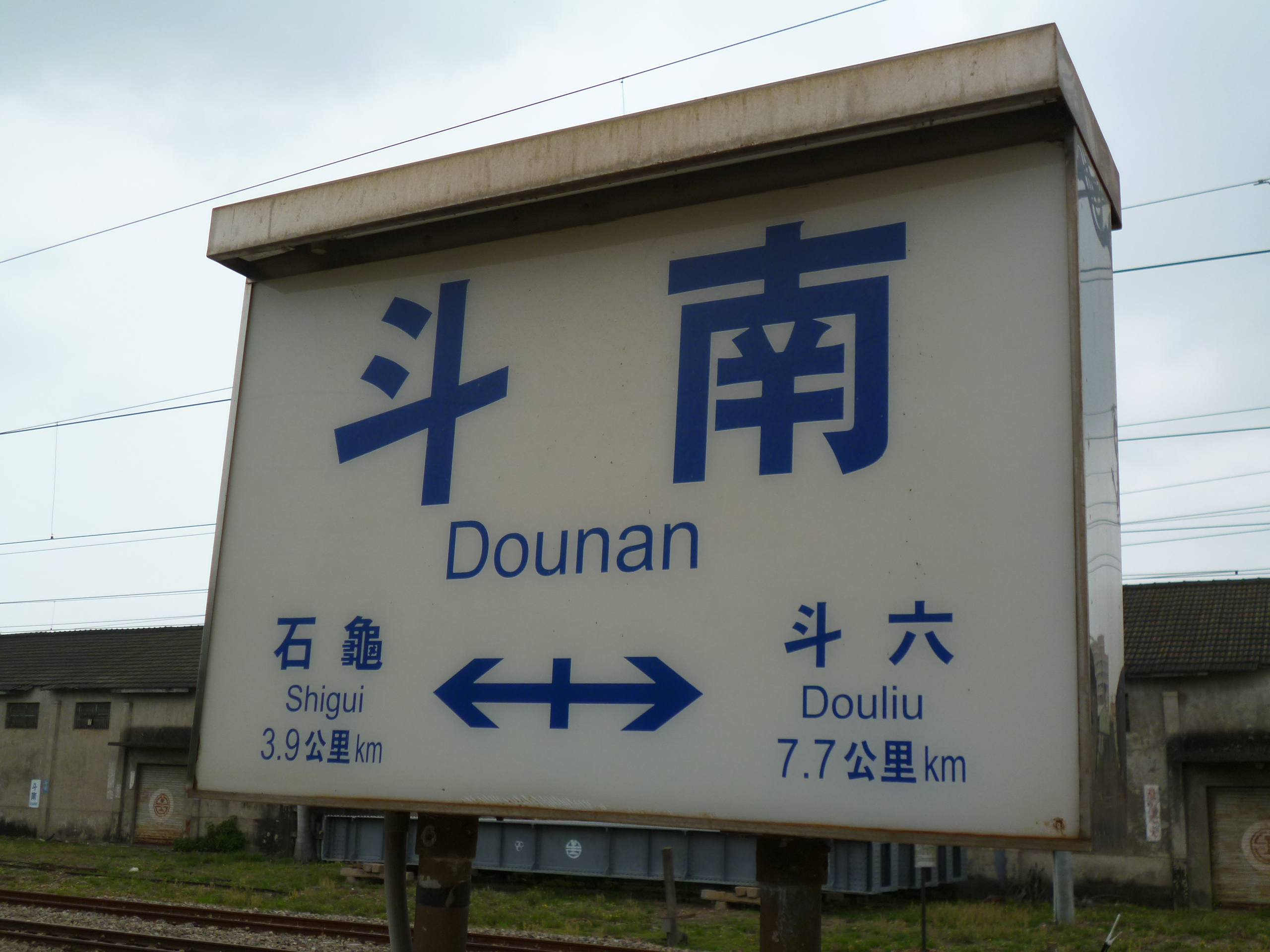 The running in board at TRA Dounan Station.